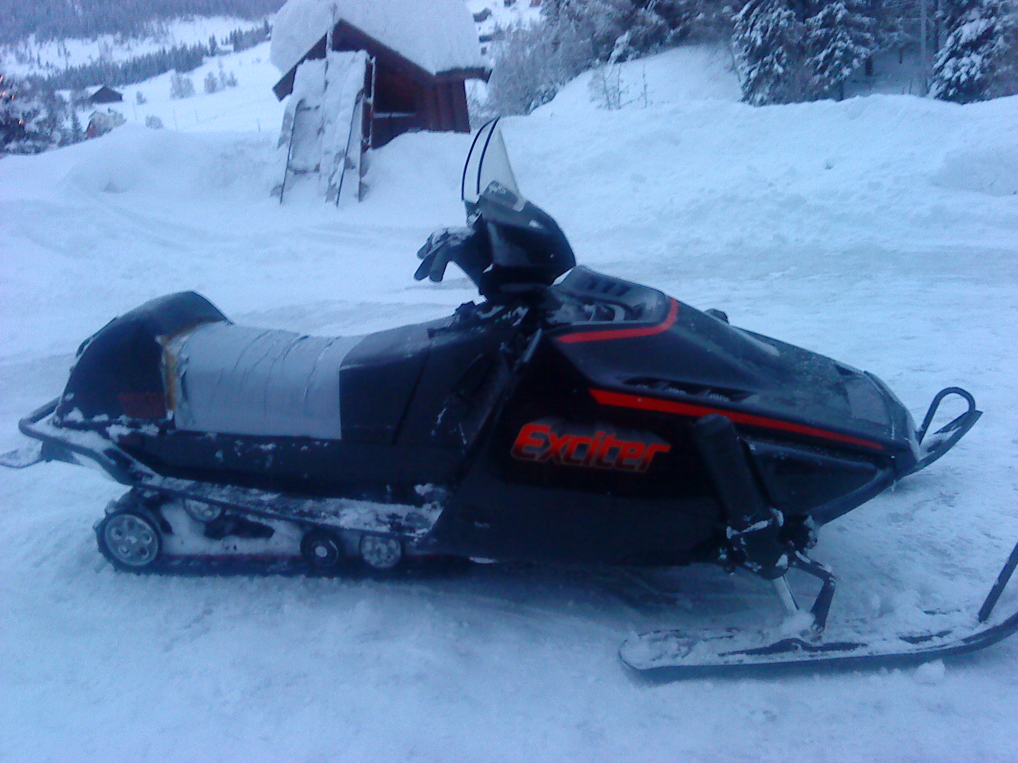 A picture of the Yamaha Exciter 1989 model